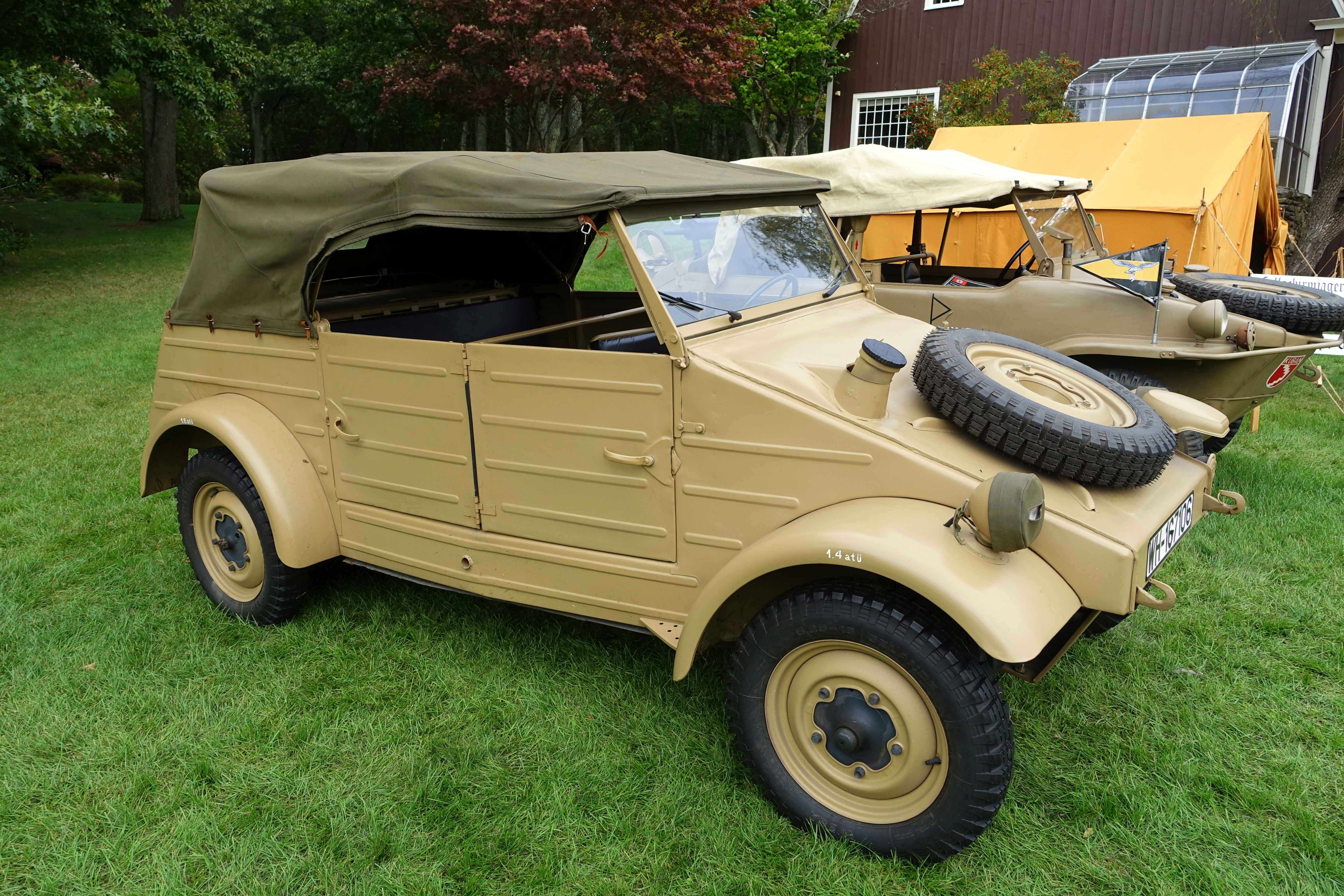 Battle for the Airfield, 2017 - Collings Foundation - Stow / Hudson, Massachusetts, USA.